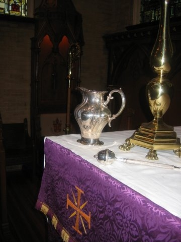 This is a photograph of a Pitcher (container)|:en:ewer|Pitcher and an aspergilium from the Episcopal Cathedral Church of Saint Matthew. Inside the aspergilium is a small sponge. Water is poured into the ewer, then blessed. The aspergilium is dipped into the ewer, and then the bishop uses the aspergilium to bless something with holy water. This is my photograph that I took and you are welcome to it. Sarum blue| 20:13, 23 April 2007 (UTC) Summary This is a photograph of a Pitcher (container) and an aspergilium from the Episcopal Cathedral Church of Saint Matthew. Inside the aspergilium is a small sponge. Water is poured into the ewer, then blessed. The aspergilium is dipped into the ewer, and then the bishop uses the aspergilium to bless something with holy water. This is my photograph that I took and you are welcome to it. Sarum blue 20:13, 23 April 2007 (UTC)